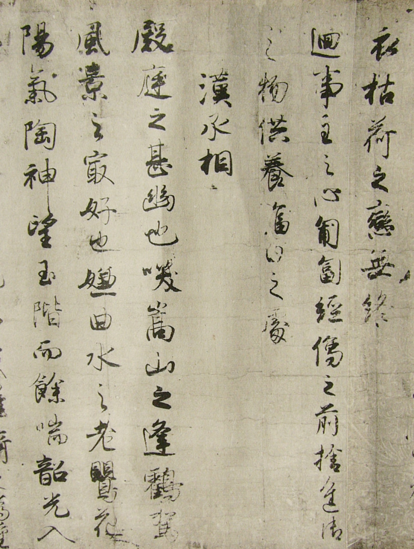 A section of Honnoji-Gire, , Anthology of poems by japanese poets, Calligrahpy by Fujiwara no Yukinari(ACE972-1028), handscroll, ink on paper, Height 29cm, Honnō-ji Temple, Kyoto, Japan